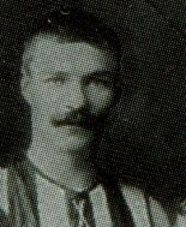 Photograph of Billy Spears in 1903.